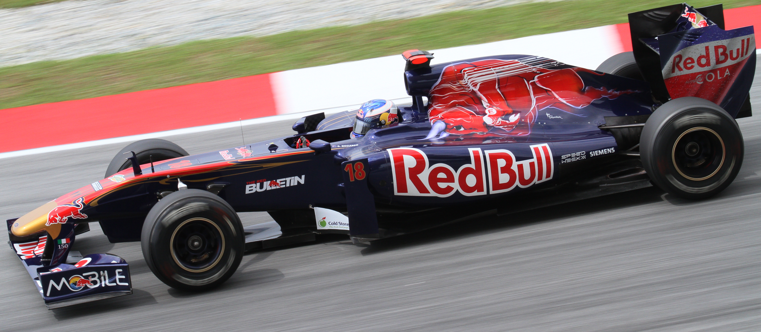 Formula One 2011 Rd.2 Malaysian GP: Daniel Ricciardo (Toro Rosso) during the first practice session on Friday.